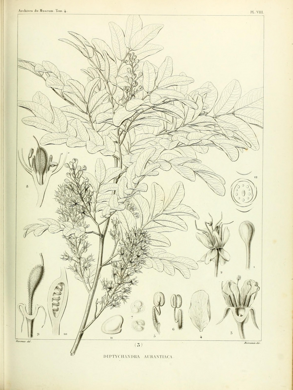 Diptychandra aurantiaca Tul. - Occurring naturally in Paraguay, Brazil and Bolivia - Archives du Muséum d’Histoire Naturelle, Paris, vol. 4: t. 8 (1839)